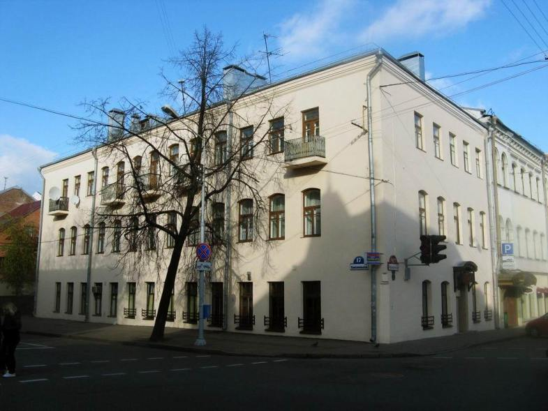 International street 9